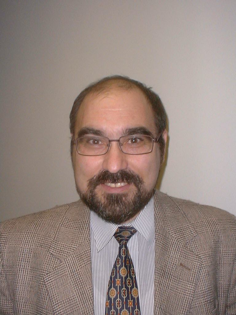 Dr Sergiy Vilkomir of the Centre for Applied Formal Methods, London South Bank University, 22 October 2001.